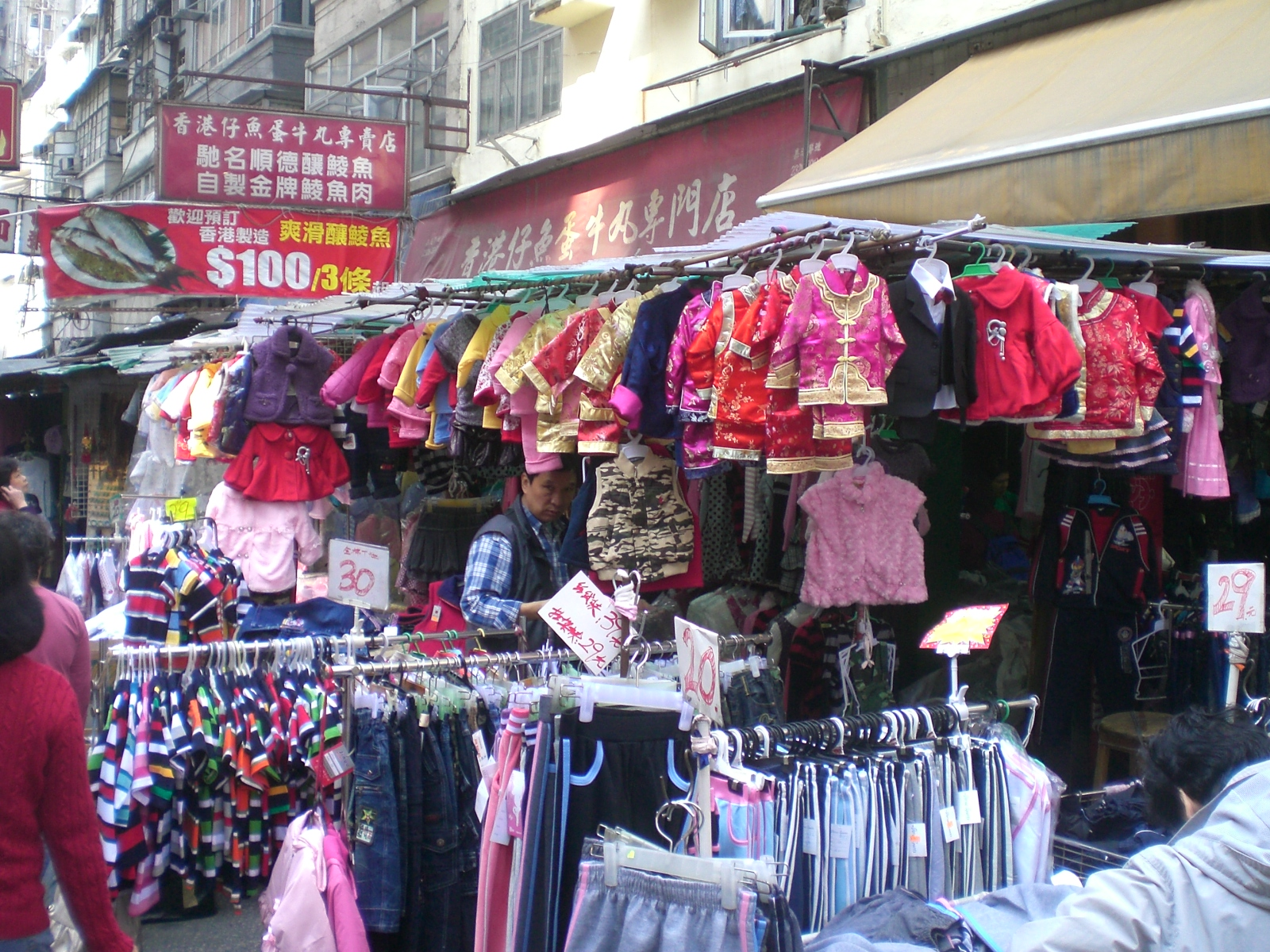 北角馬寶道步行街成衣攤販, Marble Road, North Point, Hong Kong.